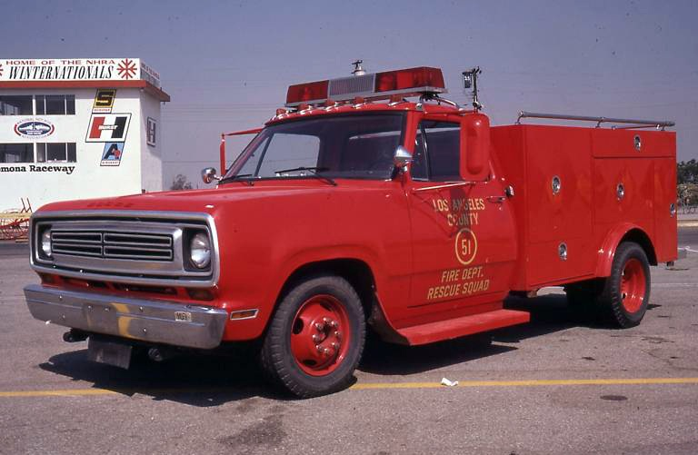 Squad 51 from the Television Show Emergency!, 1972 Dodge D-300